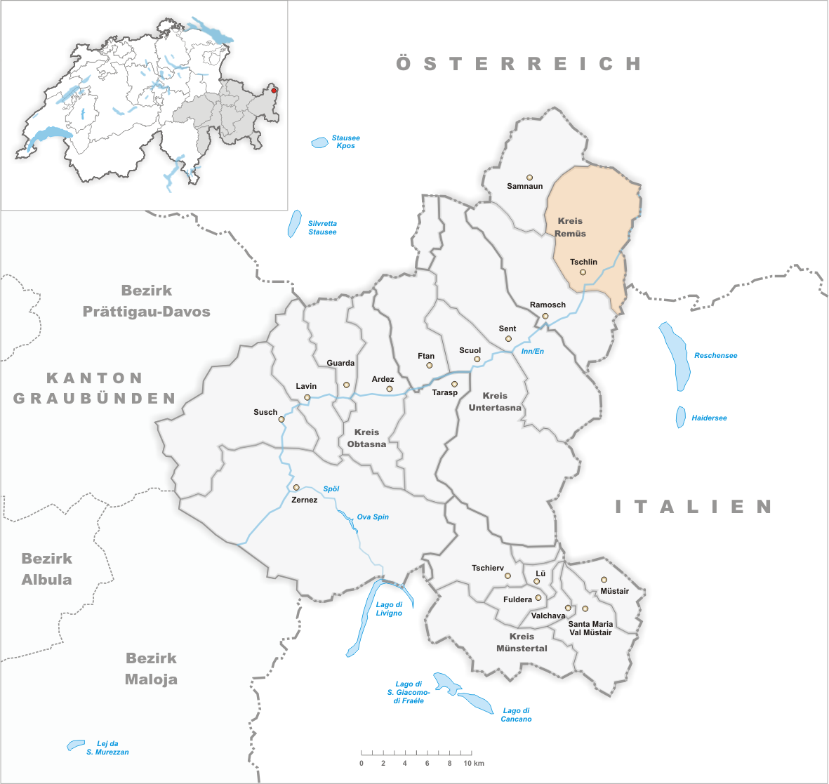 Municipality Tschlin